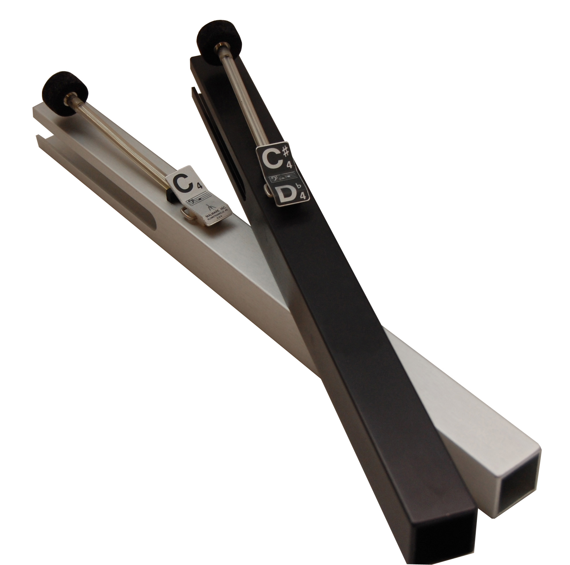 C4 (silver) and C#4 (black) hand chimes